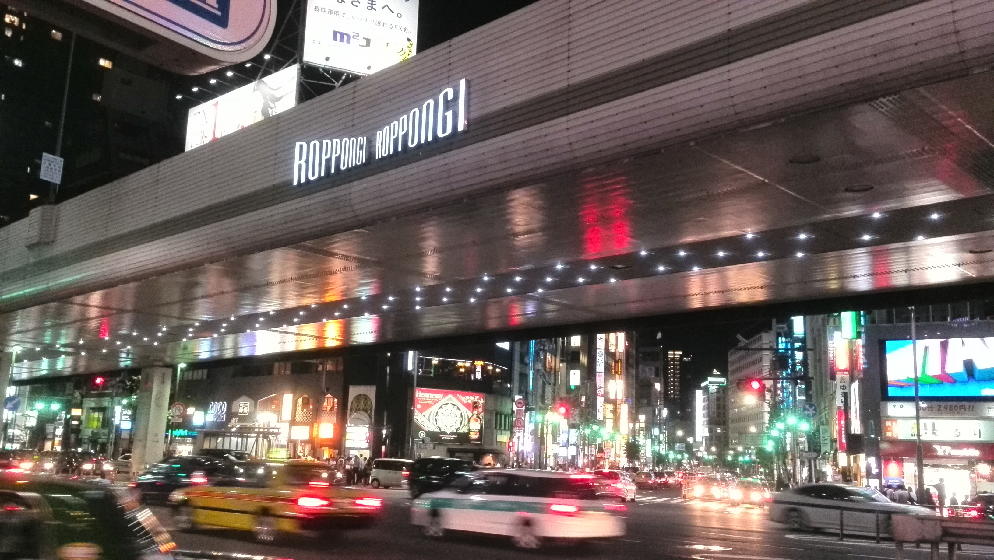 Crossing Metropolitan Expressway No. 3 Shibuya Route/Gaien Higashi Dori, Roppongi, Tokyo, Japan.